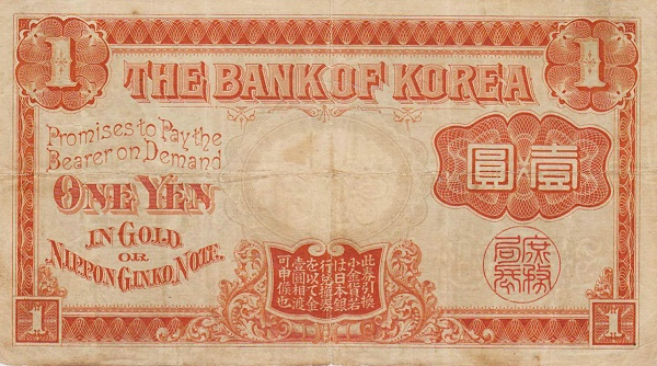 A banknote created to circulate in the Korean Empire denominated in Gold Yen.